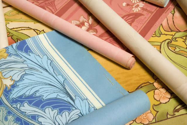 Material and rooms of the Wallpaper exhibit at Disseny Hub Barcelona